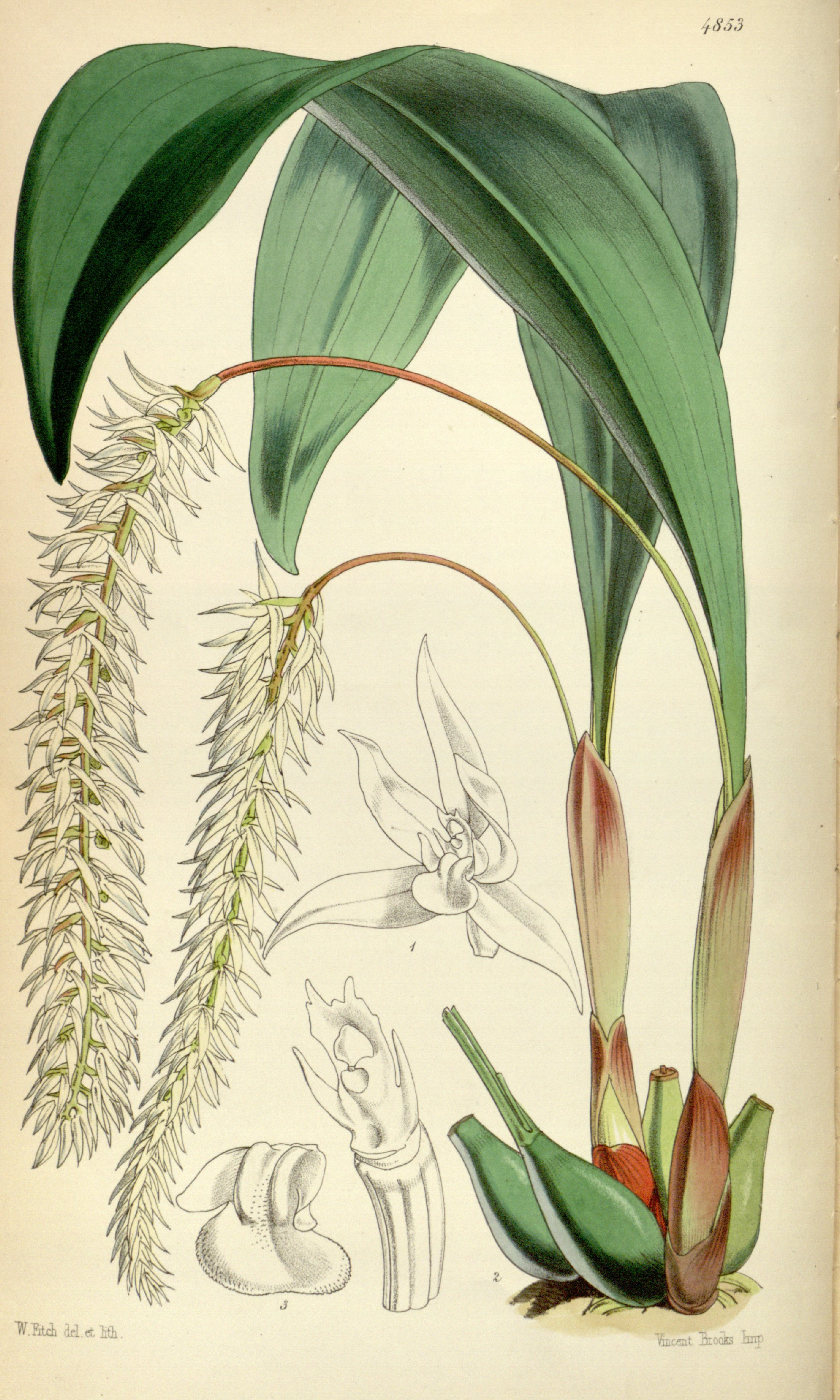 Illustration of Dendrochilum glumaceum